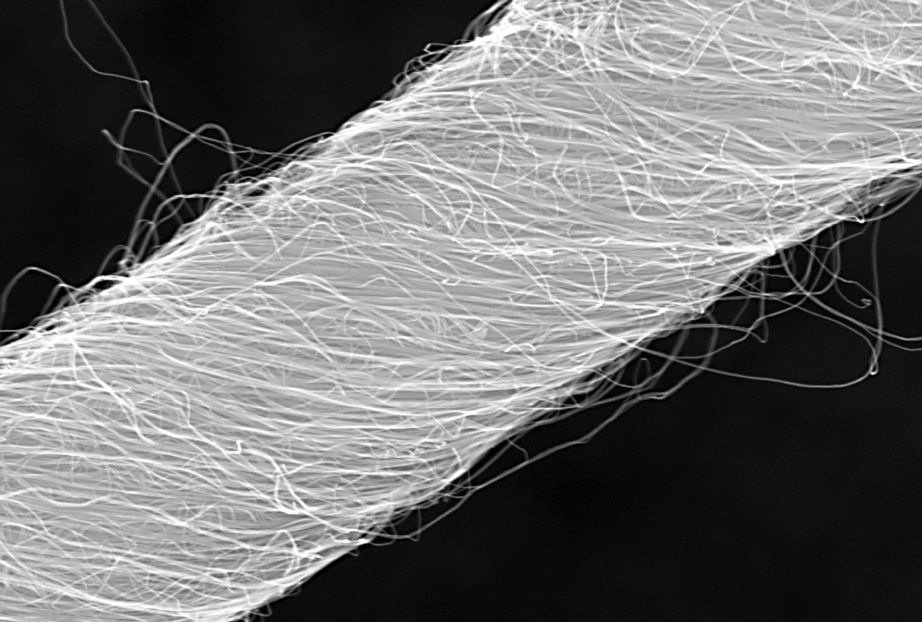 The yarn contains hundreds of thousands of fibres in cross section. Each fibre is one ten-thousandth the diameter of a typical human hair. Carbon nanotube fibres are thermally and electrically conductive , can withstand extremes of temperature and are resistant to radiation-induced degradation.Despite being strong and having a toughness comparable to that of fibers used for antiballistic vests, fabrics woven from these nanotube yarns would be soft to the touch and drapable, which is a consequence of the very small nanotube yarn diameters.Other potential applications for this material include artificial muscles, high intensity filaments for light and X-ray sources, antiballistic clothing, electronic textiles, satellite tethers, and yarns for energy storage and generation that are weavable into textiles.